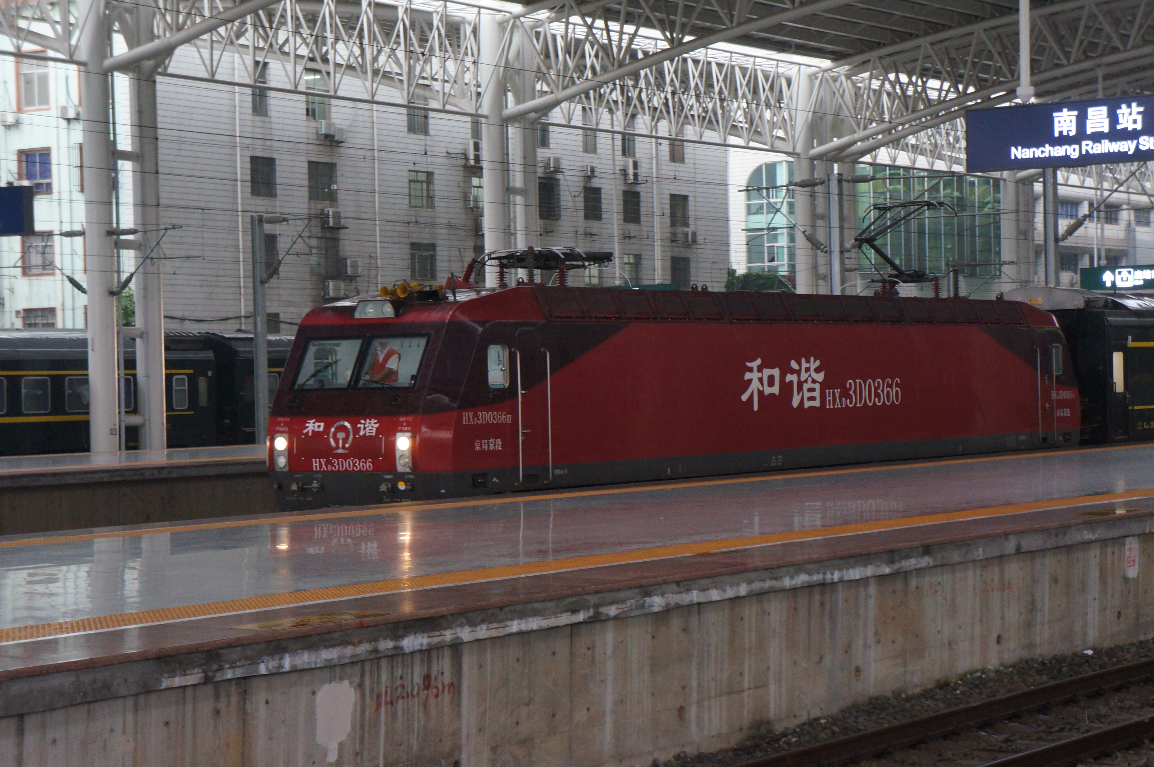 201705 HXD3D-0366 hauls K105 enters into Nanchang Station. Here come the famous bus on Beijing–Kowloon Railway!